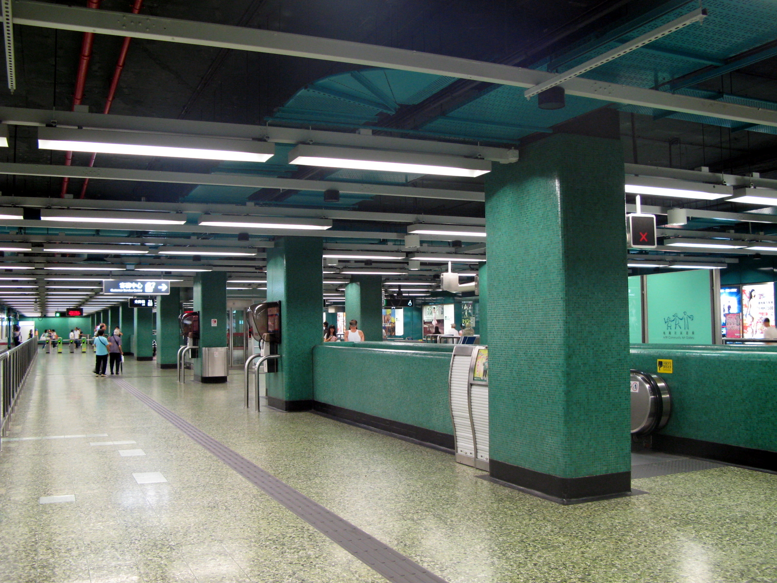 MTR Sham Shui Po station concourse